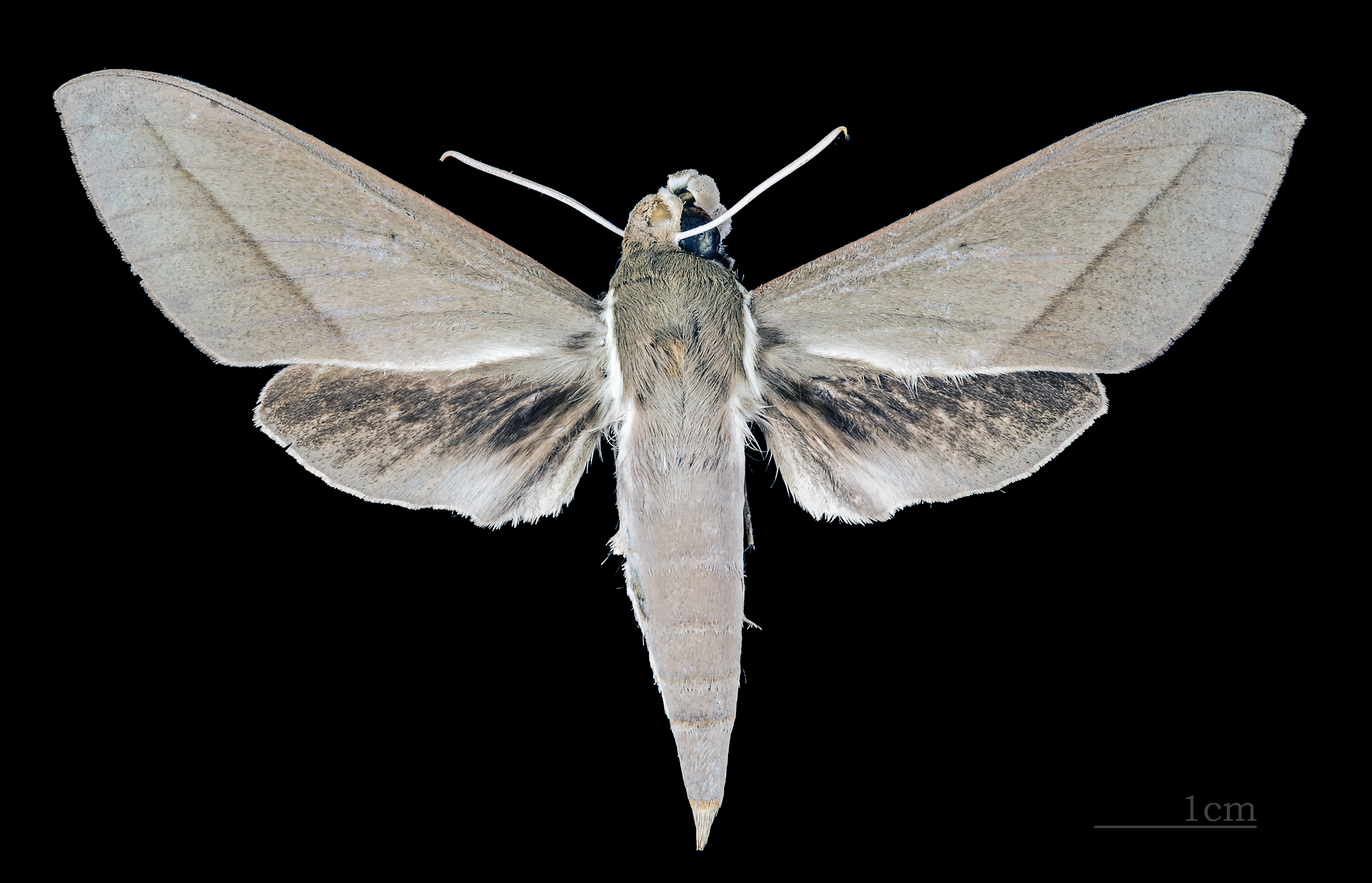 Theretra incarnata - Dorsal side Collection of the Mathematician Laurent Schwartz